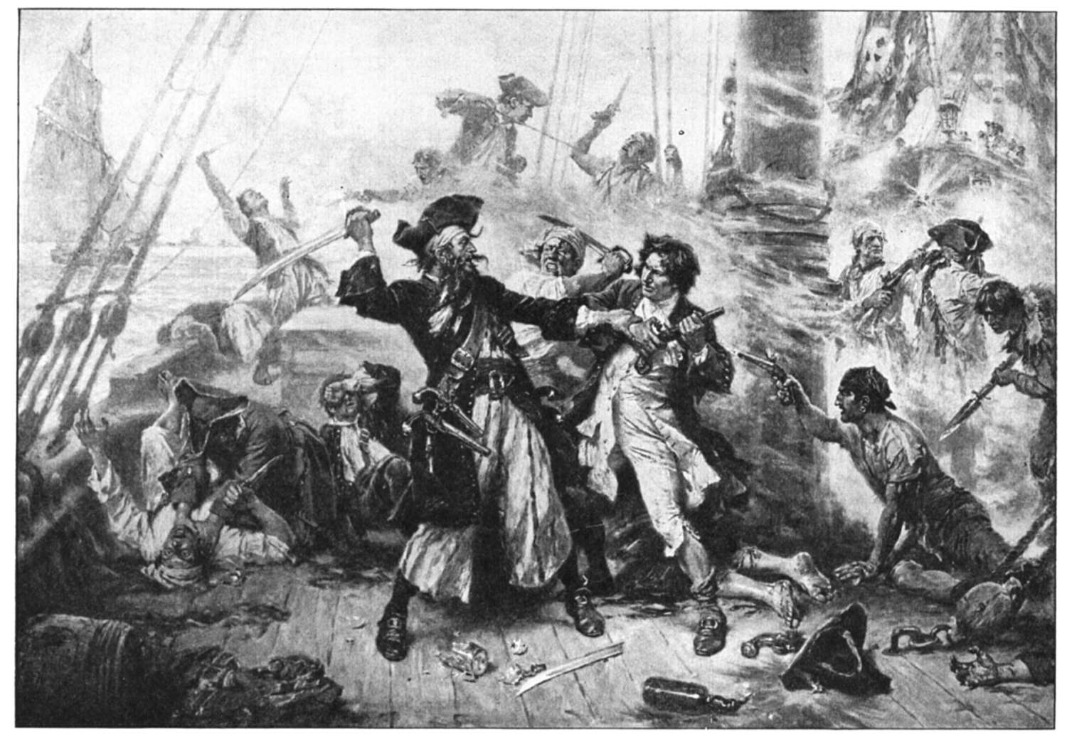 Capture of the Pirate, Blackbeard, 1718 depicting the battle between Blackbeard the Pirate and Lieutenant Maynard in Ocracoke Bay